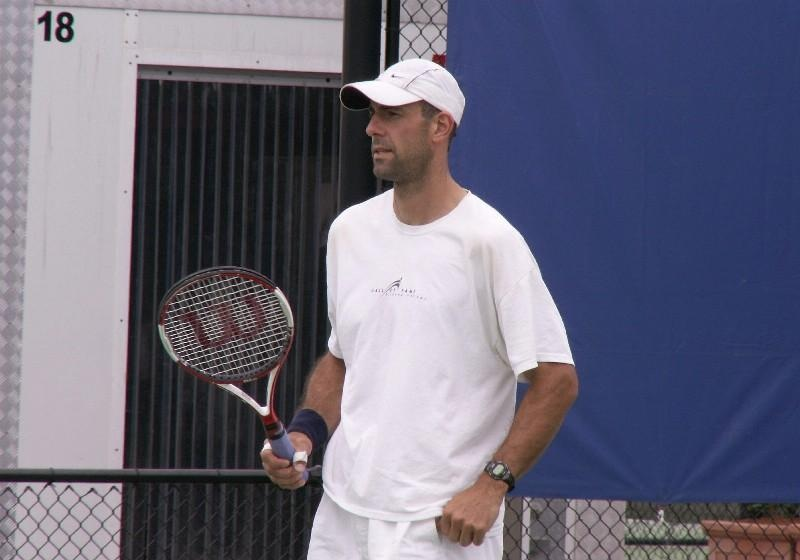 Jim Thomas. Image taken during a practice with Stephen Huss at the 2006 Sydney International ATP Tournament.